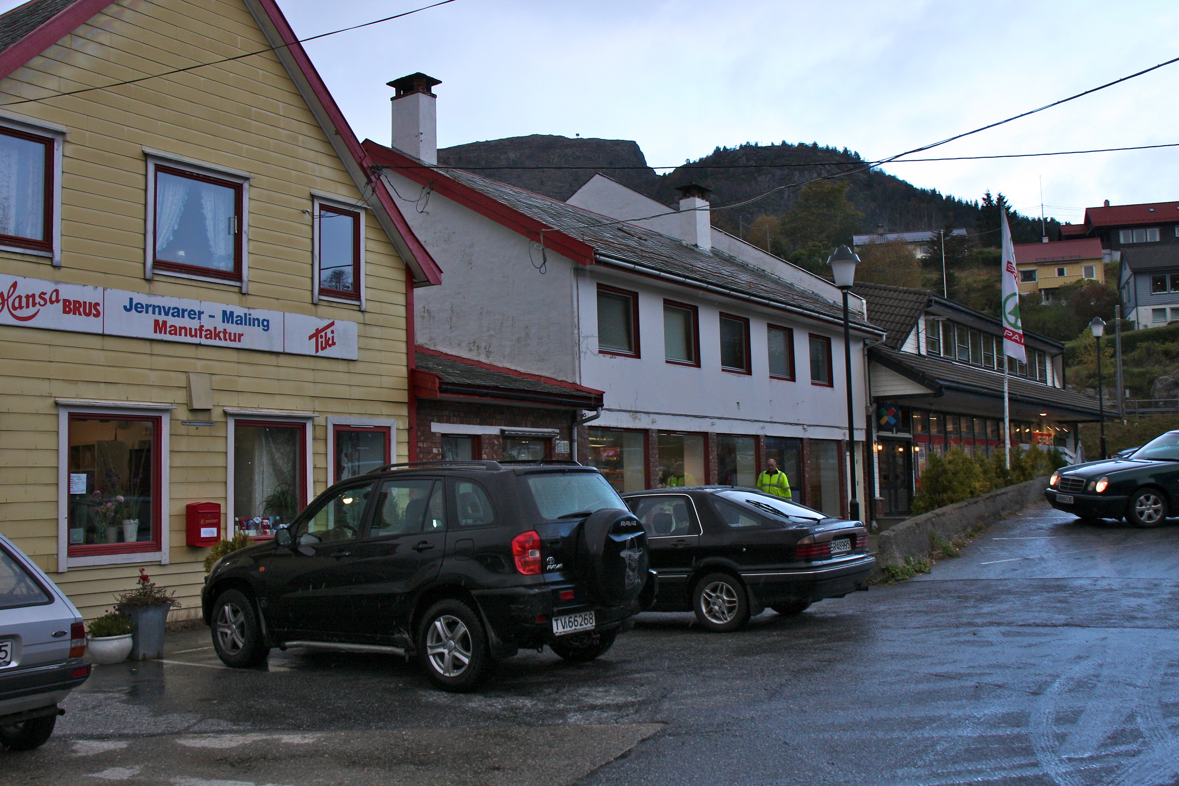 Gulen municipality, Norway.